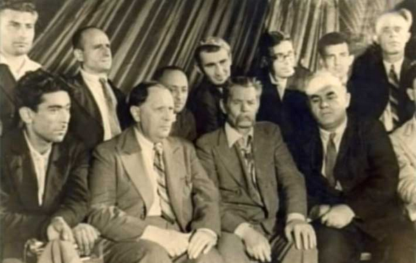 Vurgun, Tolstoy, Gorkiy and Mumtaz